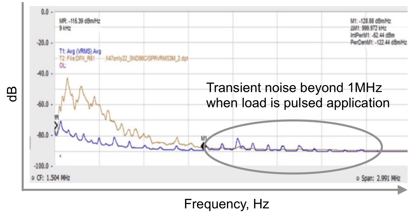 Oscilloscope trace of the transient noise present with LDO in Pulsed Applications